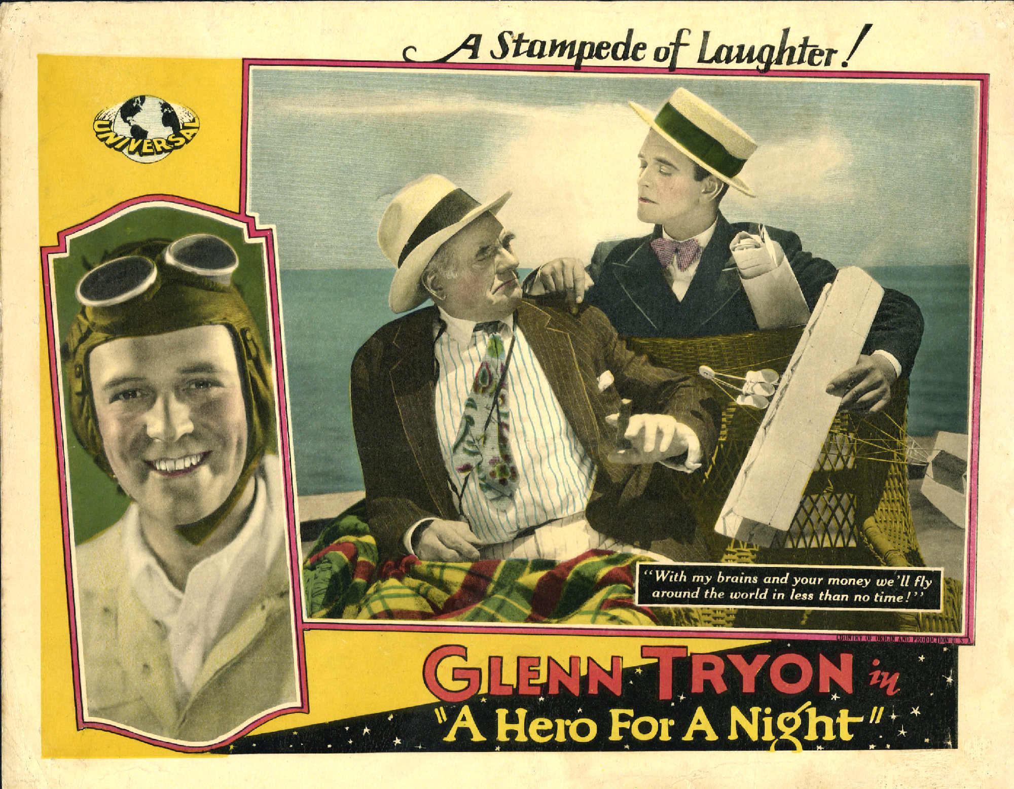 Lobby card for the American comedy film A Hero for a Night (1927). There are no copyright marks on the item. At right is Country of origin and production USA (in border of colored film still).